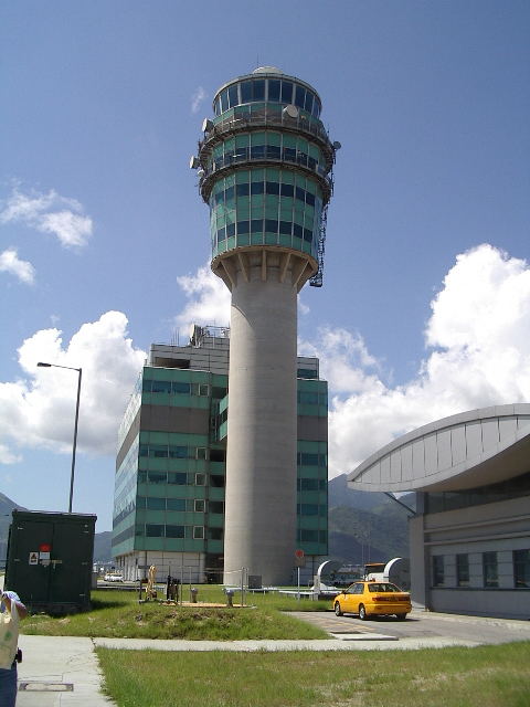 The air traffic control complex (ATCX) and tower at the Hong Kong International Airport